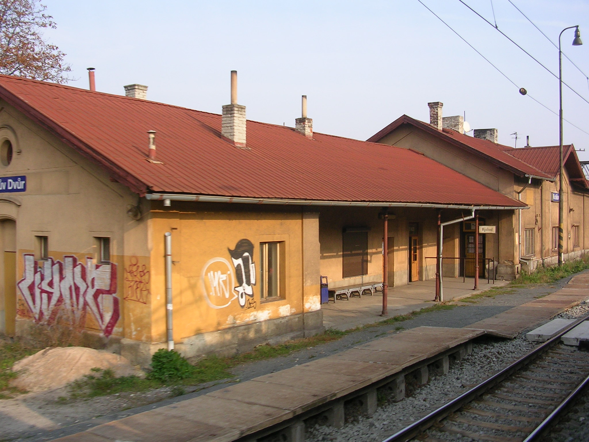 Králův Dvůr, Beroun District, Central Bohemian Region, the Czech Republic. A train station.